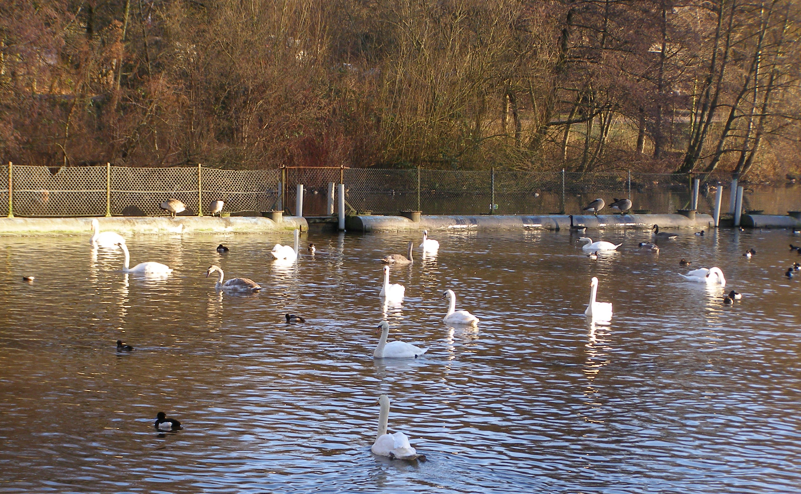 The swan wintering area of the Eppendorf mill pond in Hamburg-Eppendorf on December 26, 2008. Birds inside the fence: mute swans (Cygnus olor), subadult and adult, Canada geese (Branta canadensis), and tufted ducks (Aythya fuligula)